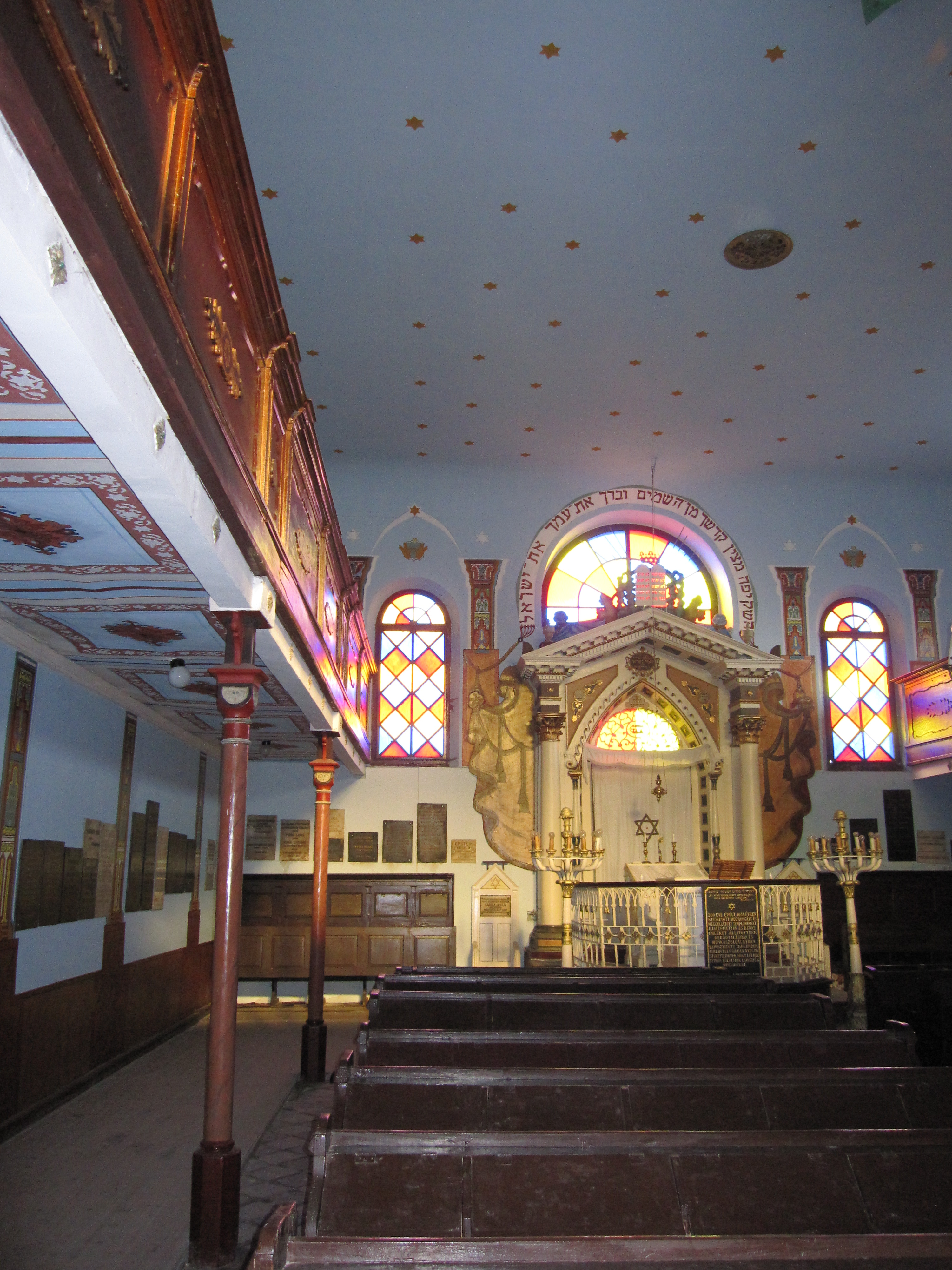 Interior of Keszthely Synagogue showing memorial plaques